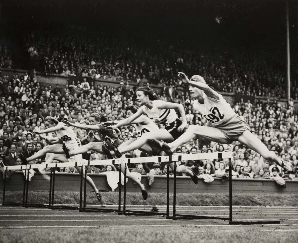 Women’s final of 80 metres hurdles, Olympic Games, London, 1948. Daily Herald Archive at the National Media Museum